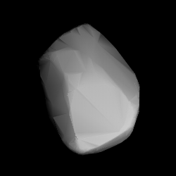 3D convex shape model of 1997 Leverrier, computed using light curve inversion techniques. J. Hanuš, J. Ďurech, M. Brož, B. D. Warner (June 2011). "A study of asteroid pole-latitude distribution based on an extended set of shape models derived by the lightcurve inversion method". Astronomy and Astrophysics 530: A134. ISSN 0004-6361. arXiv